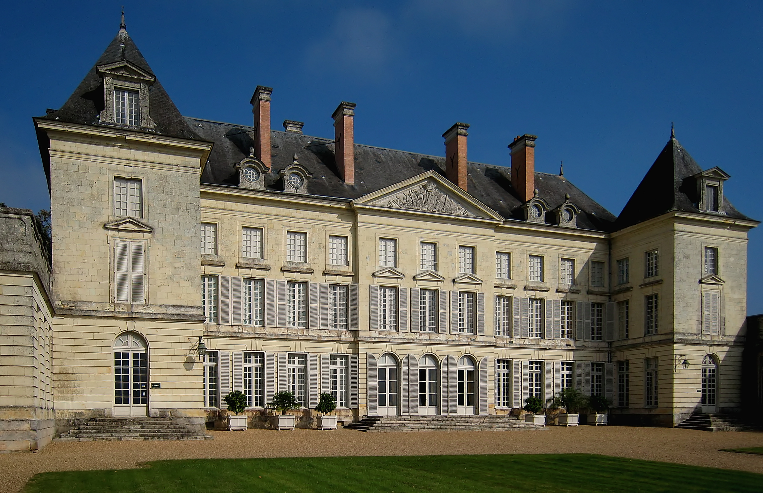 Castle Montgeoffroy, located near the village of Mazé in the county of Maine-et-Loire/France